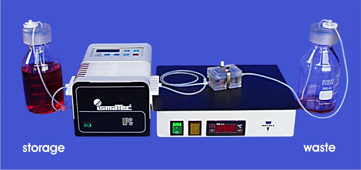 Perfusion culture line